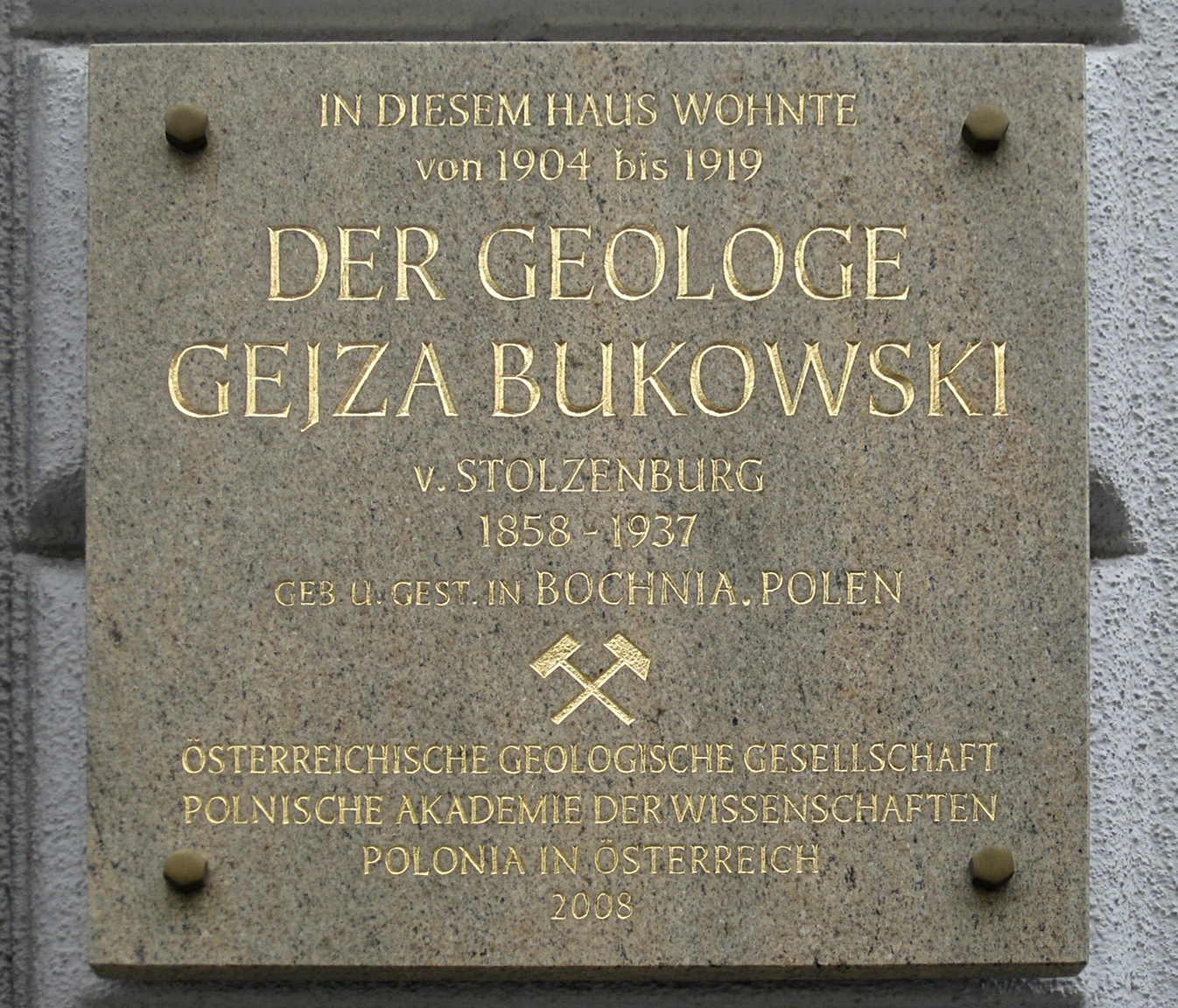 Plaque for Gejza Bukowski von Stolzenburg, Hansalgasse 3, Landstraße, Vienna.